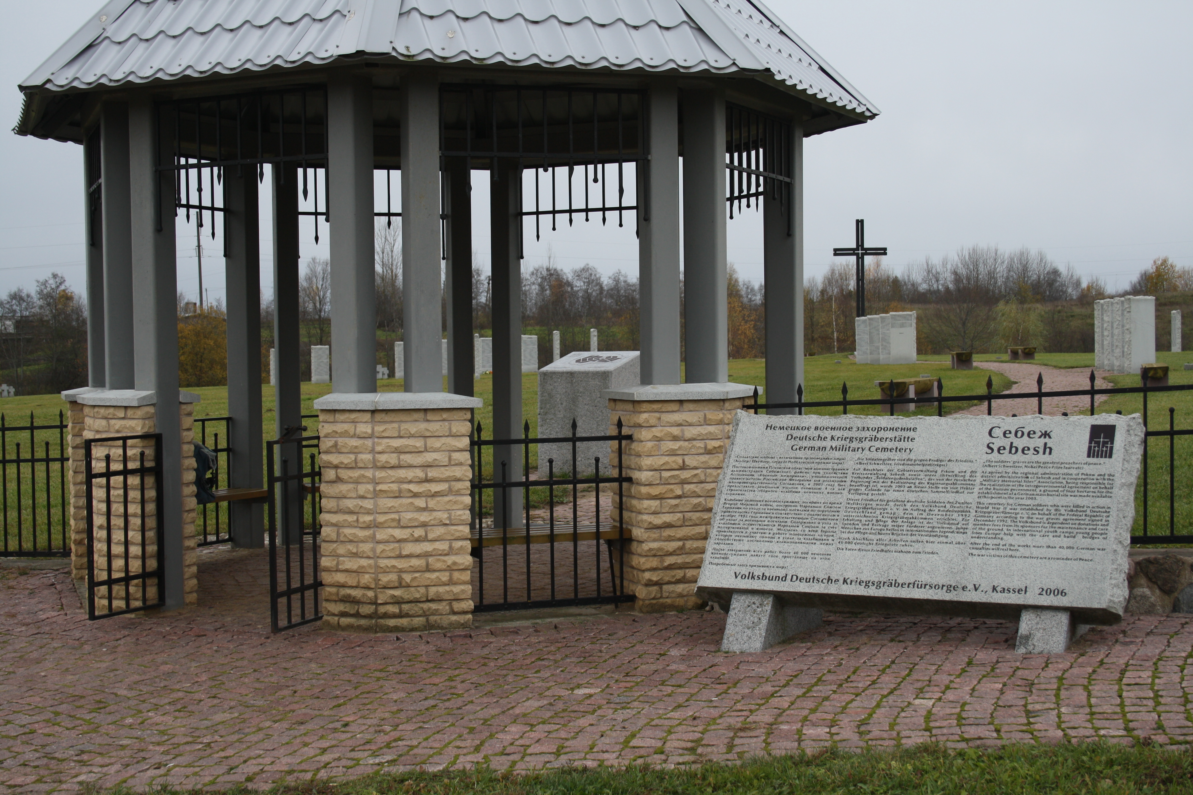 German military cemetery in Sebezh, Russia (Deutsche Kriegsgräberstätte Sebesh). October 2013.